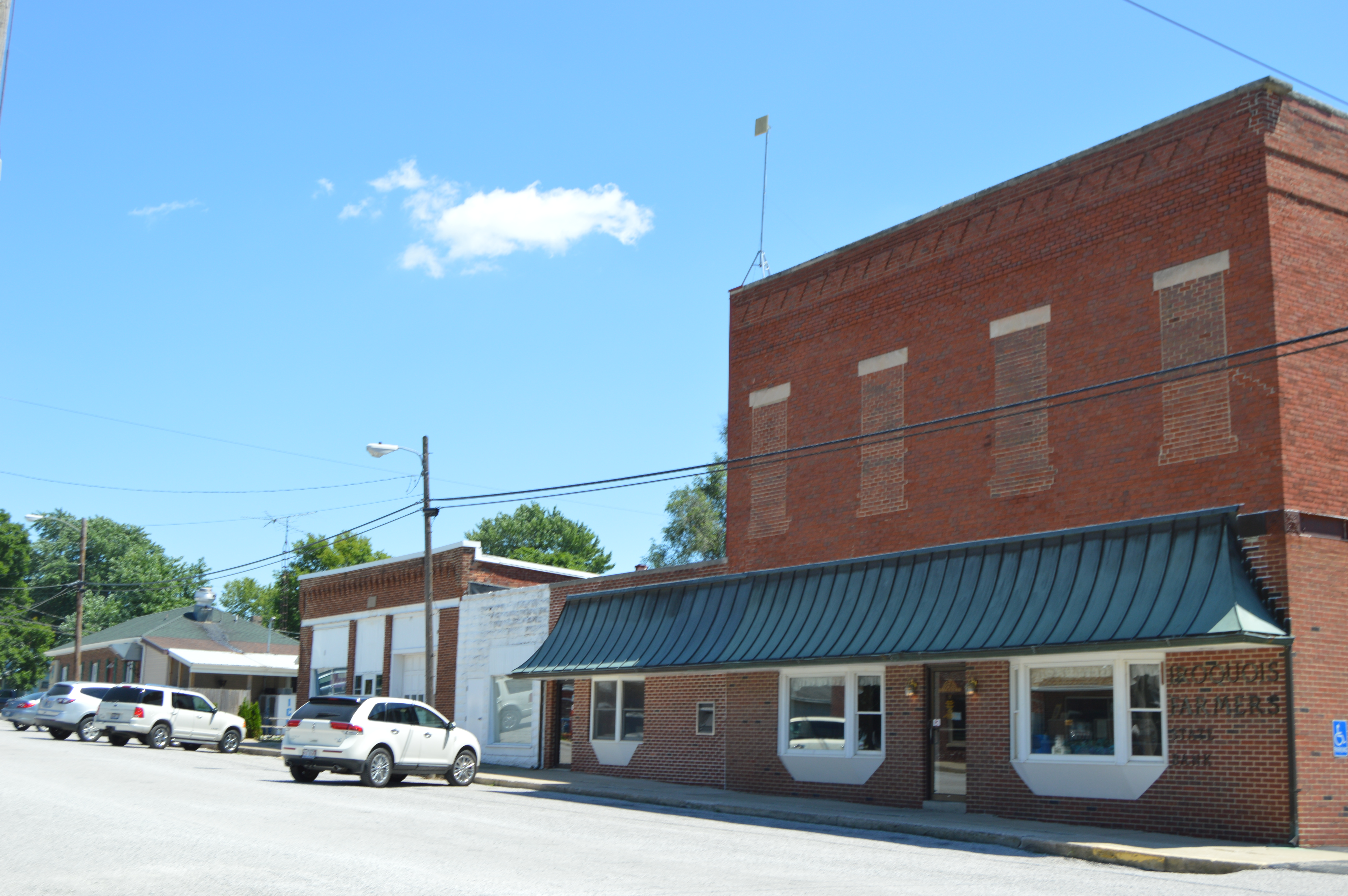 Buildings on the southern side of Lincoln Avenue just east of Hamilton Street in Iroquois, Illinois, United States.